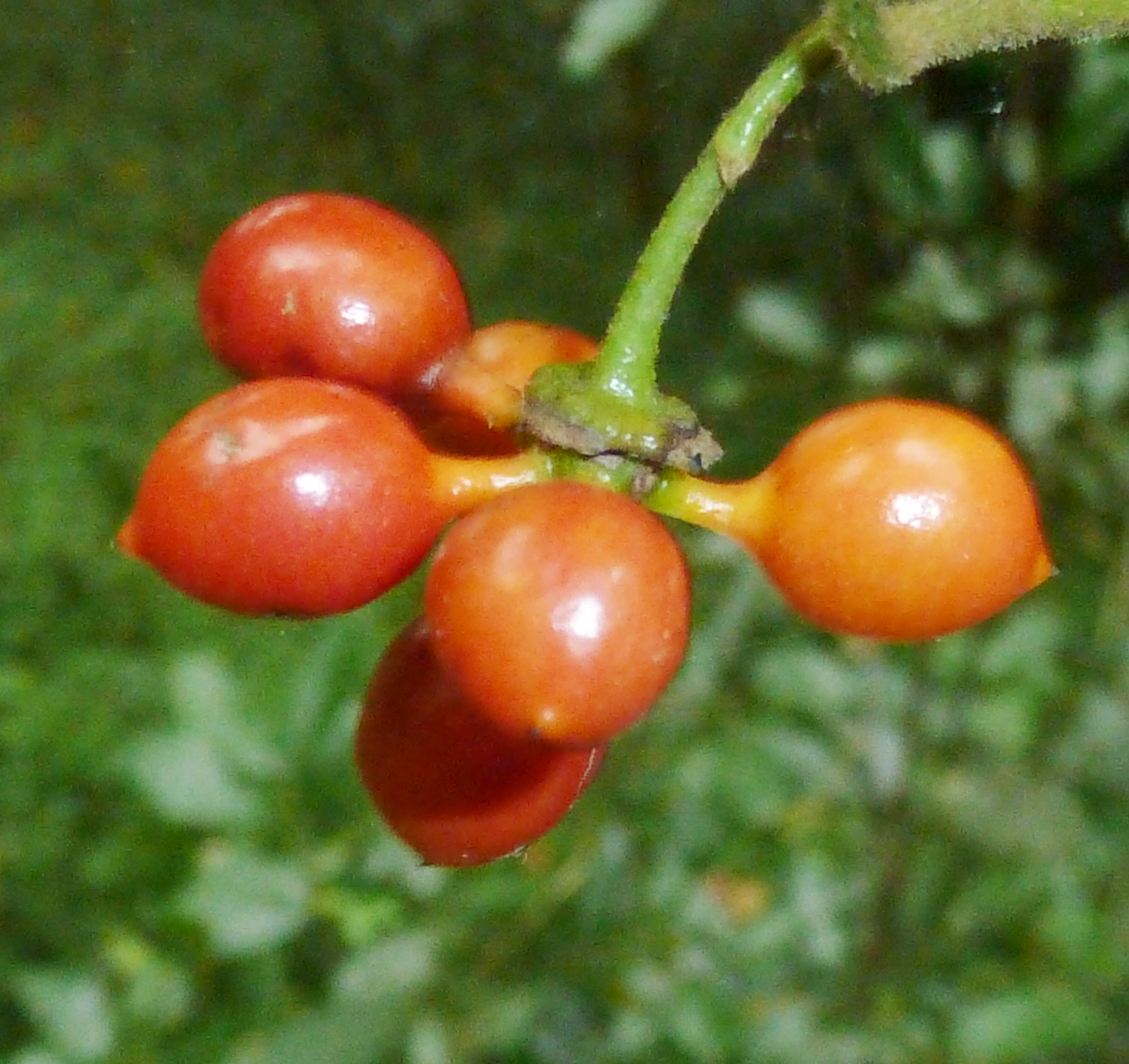 Fruit of a Dwaba-berry in Krantzkloof Nature Reserve in KwaZulu-Natal